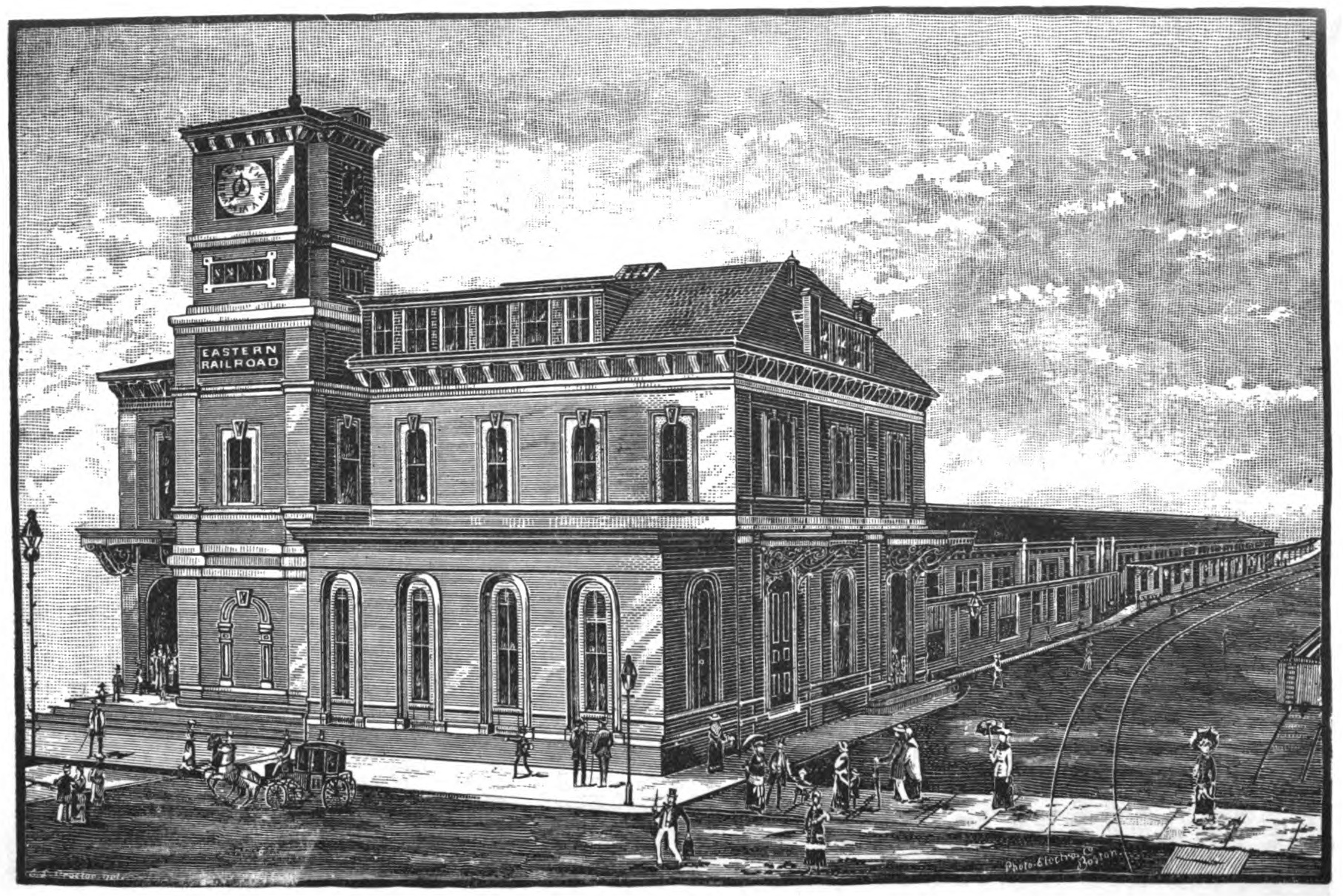 Eastern Railroad terminal in Boston in 1883